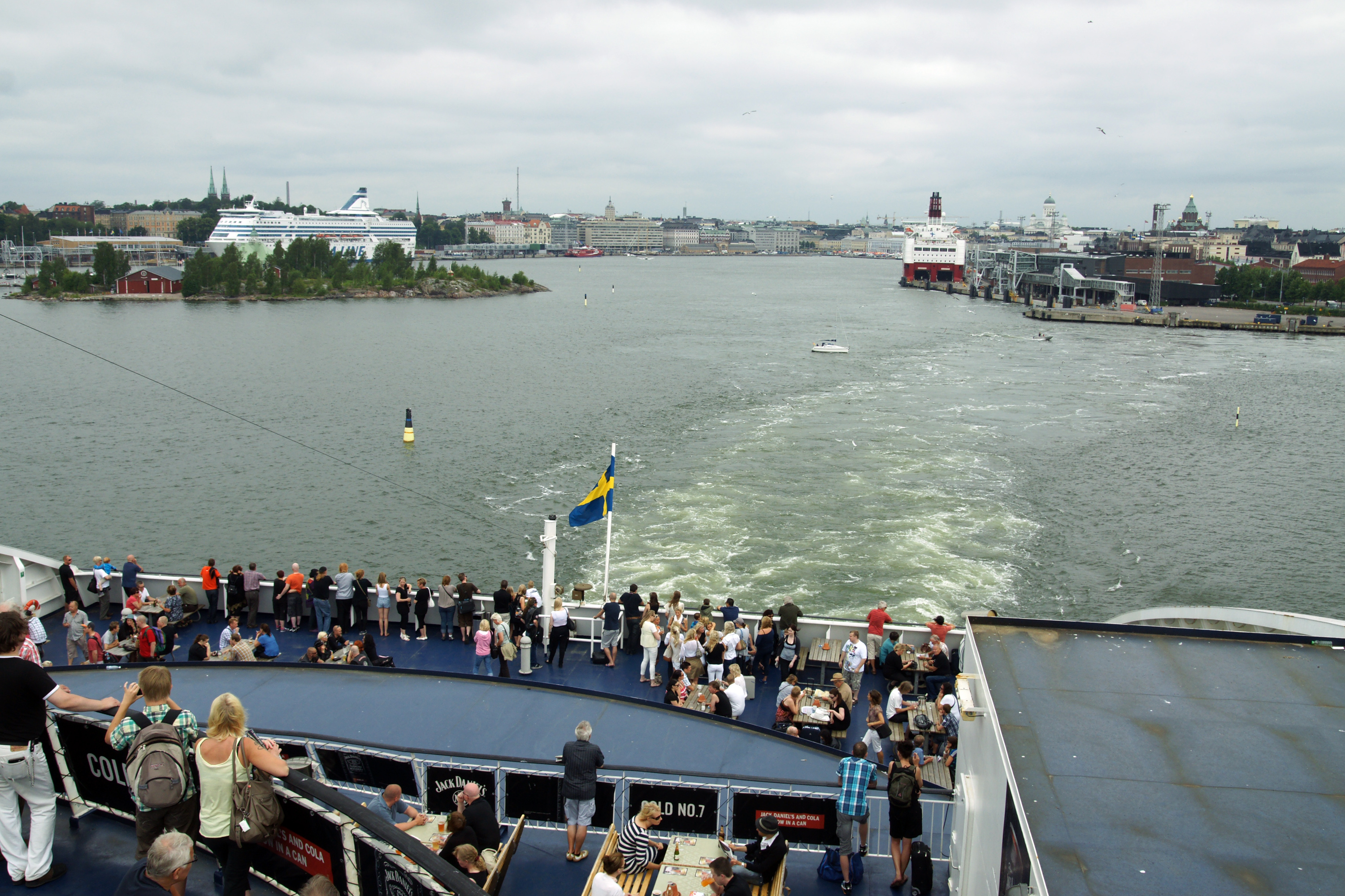 Helsinki view